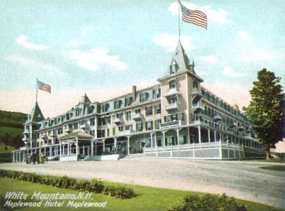 The Maplewood Hotel, Maplewood (Bethlehem), NH; from a c. 1905 postcard. It burned down in 1961.